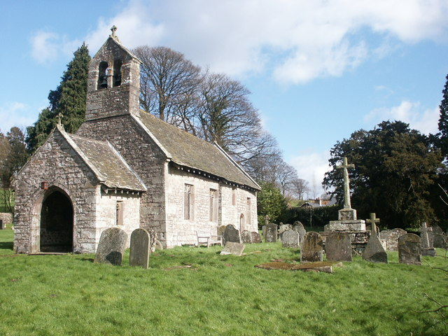 St Aeddan's churchyard cross, Bettws Newydd A fine cross stands in the churchyard of St Aeddan's church, Bettws Newydd.